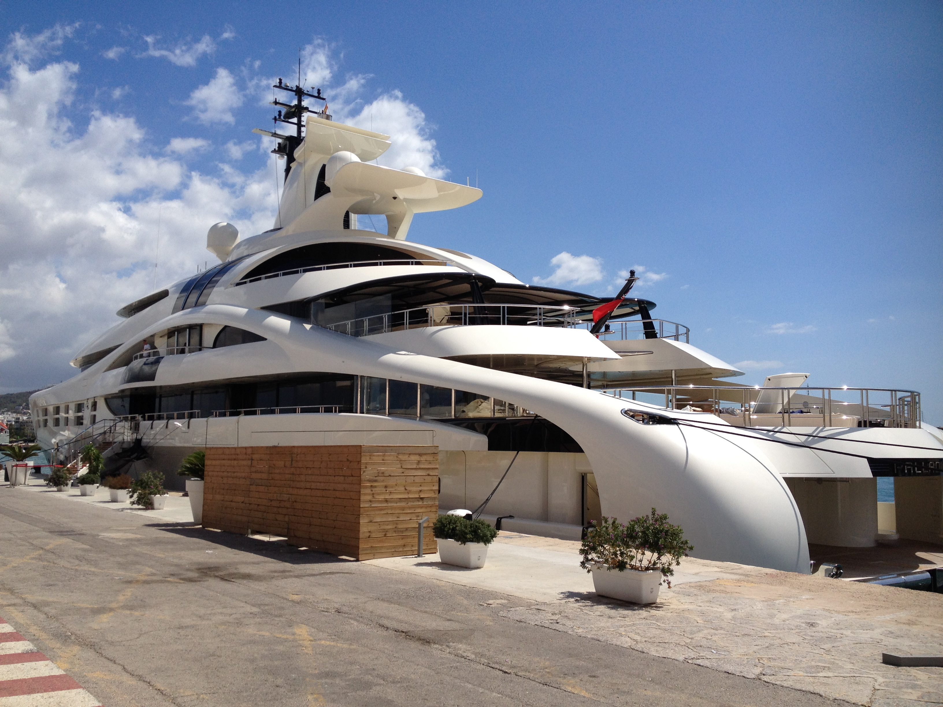 Mega-Yacht "Palladium" in the port of Ibiza, 2014